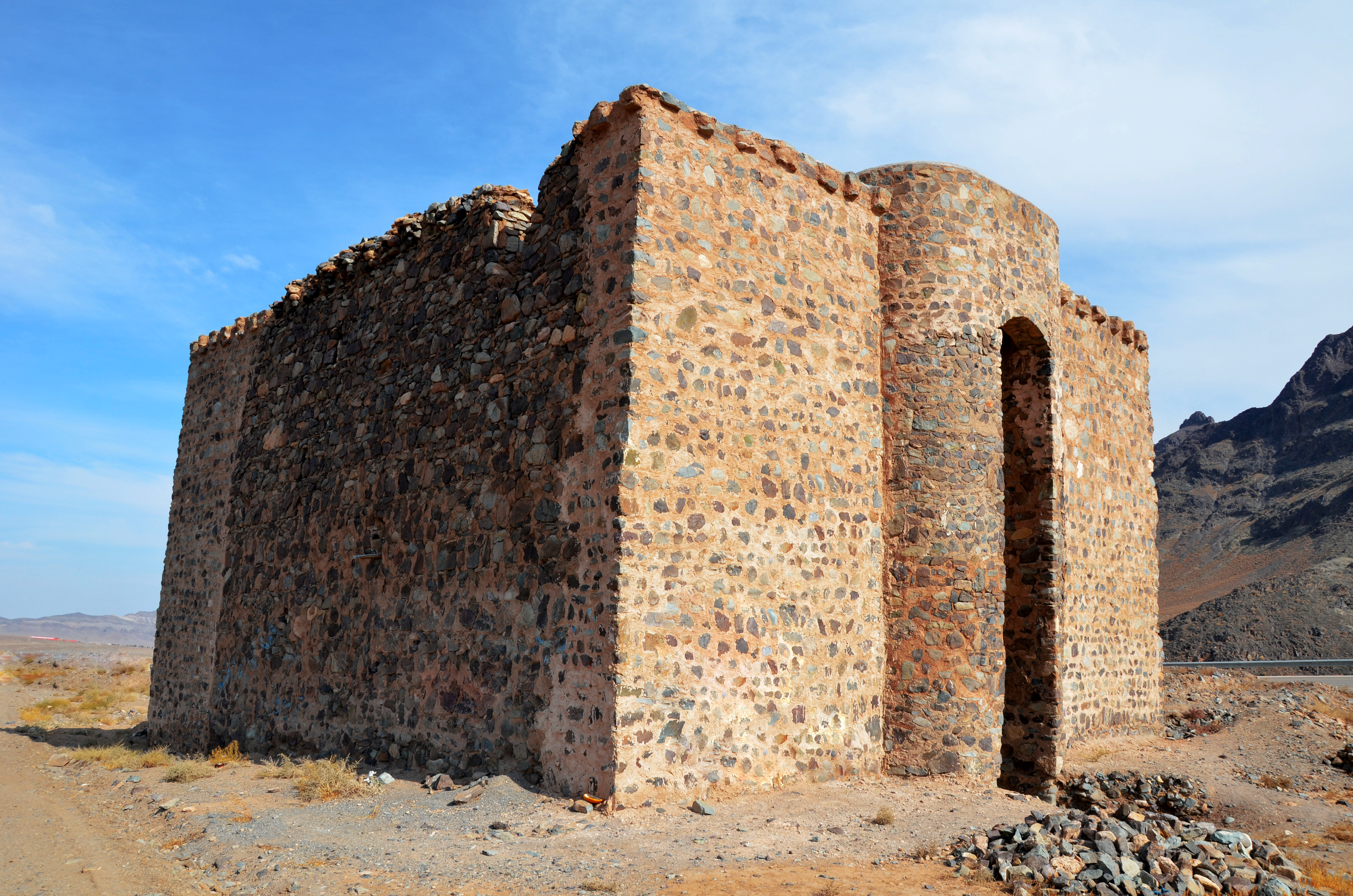 Natanz Stony castle, Isfahan Province, Iran